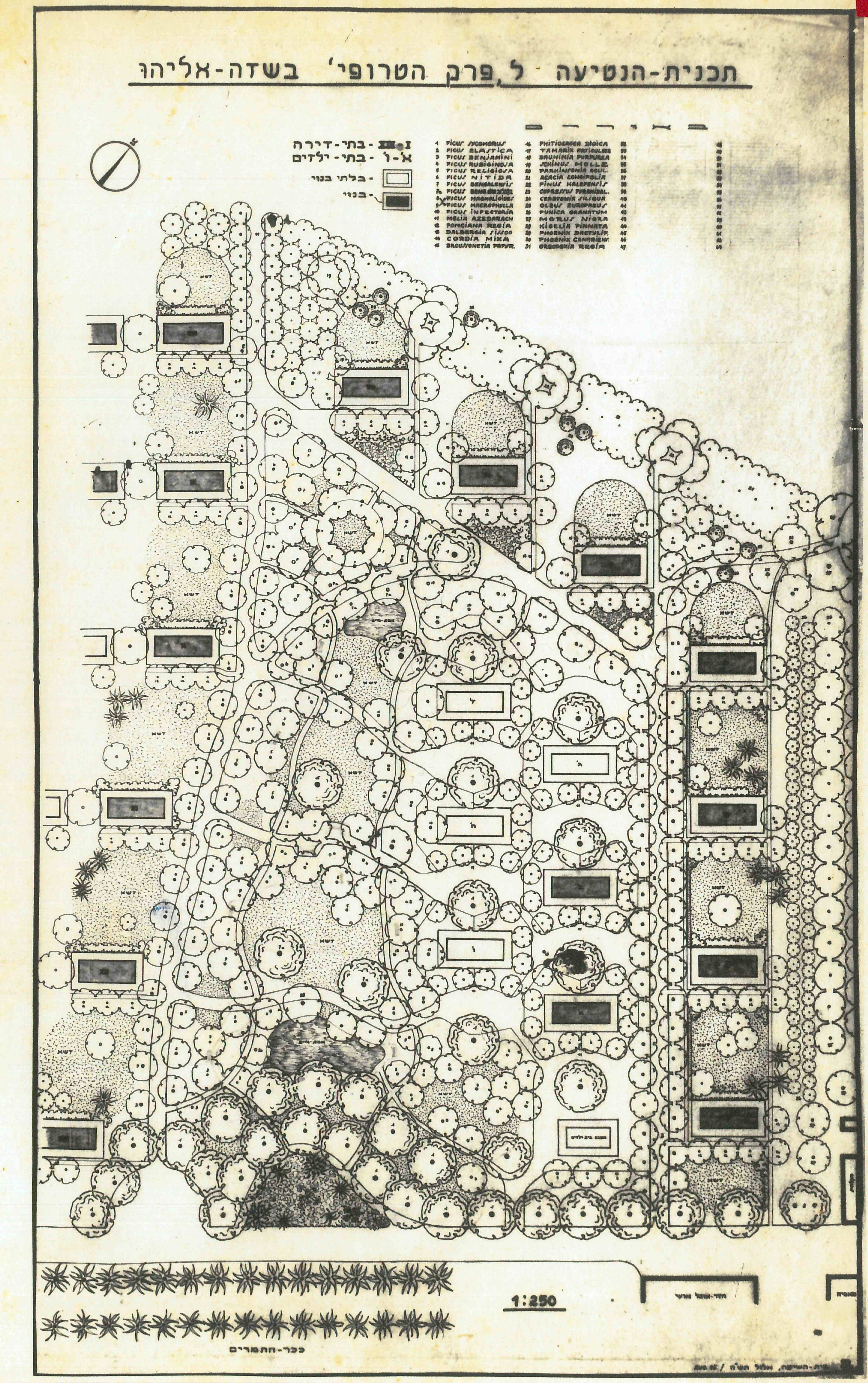 Itzhak Kutner, Tropical Park in Kibubutz Sde Eliyahu, 1945